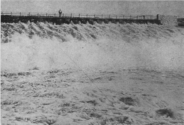 Spillway at Avalon Dam, New Mexico in 1903, before the dam was destroyed by a flood